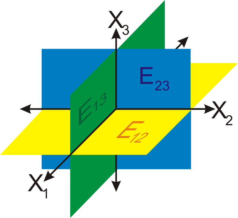 Coordinate Areas